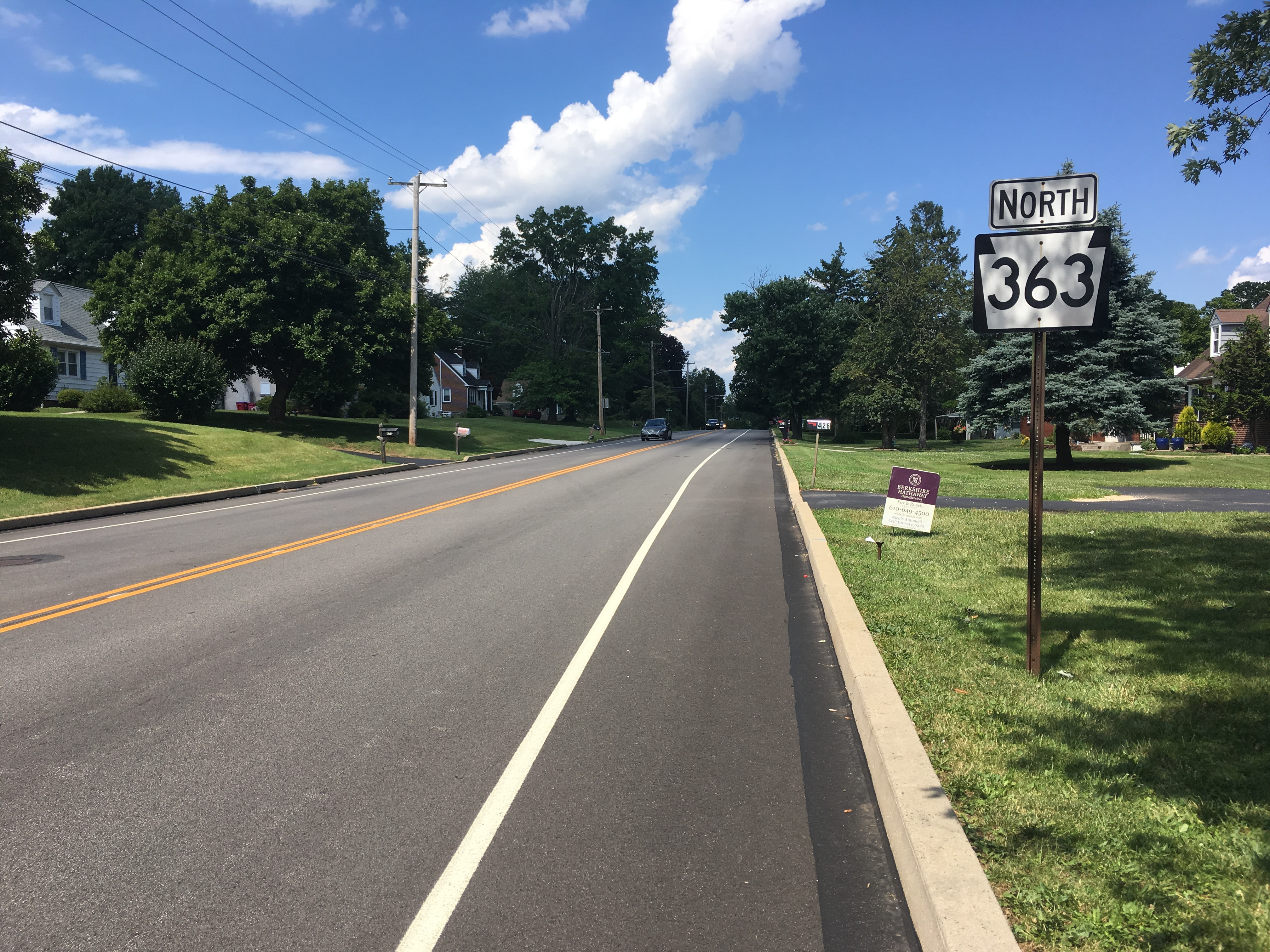 Northbound Pennsylvania Route 363 (Trooper Road) past the intersection with Egypt Road in Audubon, Pennsylvania.